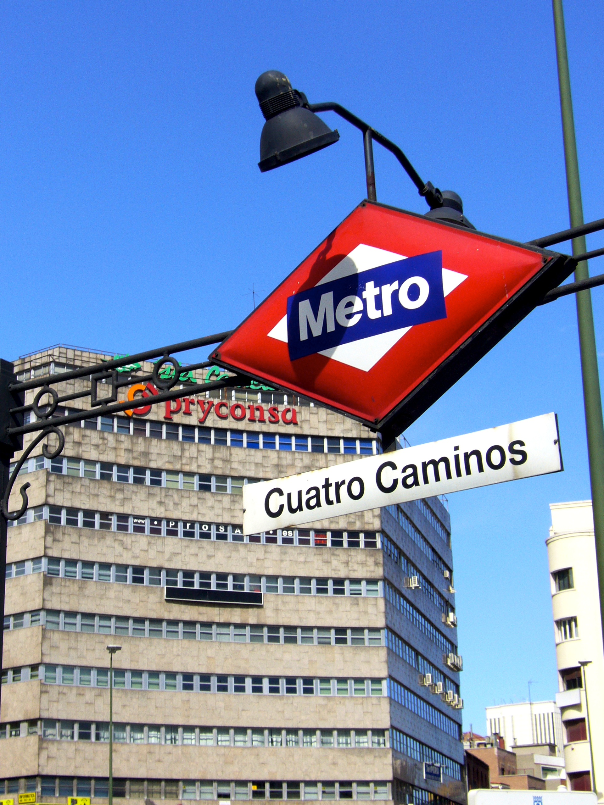 Sign at Cuatro Caminos underground station in Madrid (Spain).